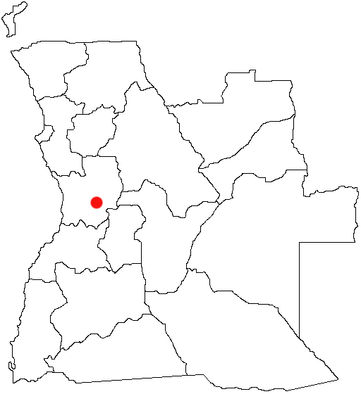 Waku-Kungo, Angola Location Map; created with the GIMP. Made by User:Acntx.